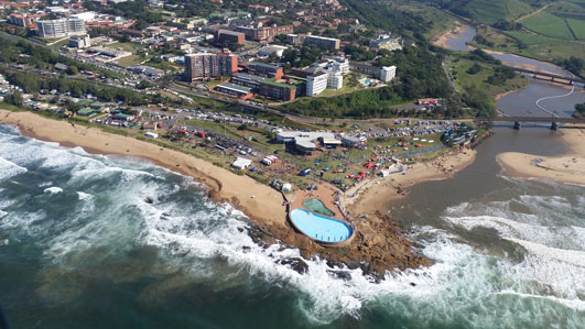 An aerial view of Scottburgh beach and pool by microlight